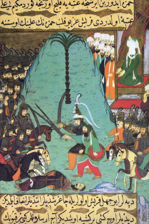 Siyer-I Nebi or Life of the Prophet